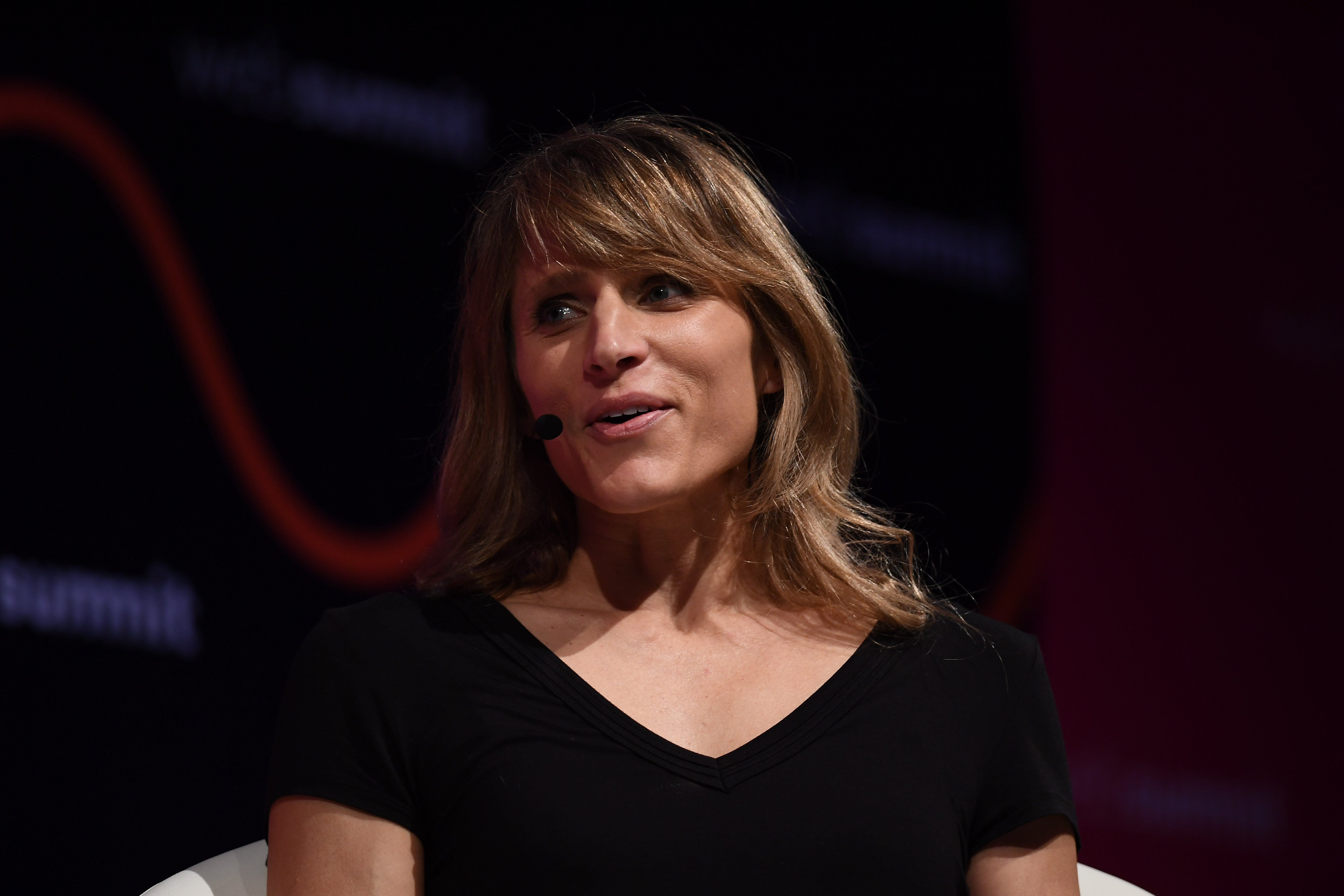 9 November 2017; Allison Wagner, Olympic Champion, on Future Societies Stage during day three of Web Summit 2017 at Altice Arena in Lisbon. Photo by Stephen McCarthy/Web Summit via Sportsfile